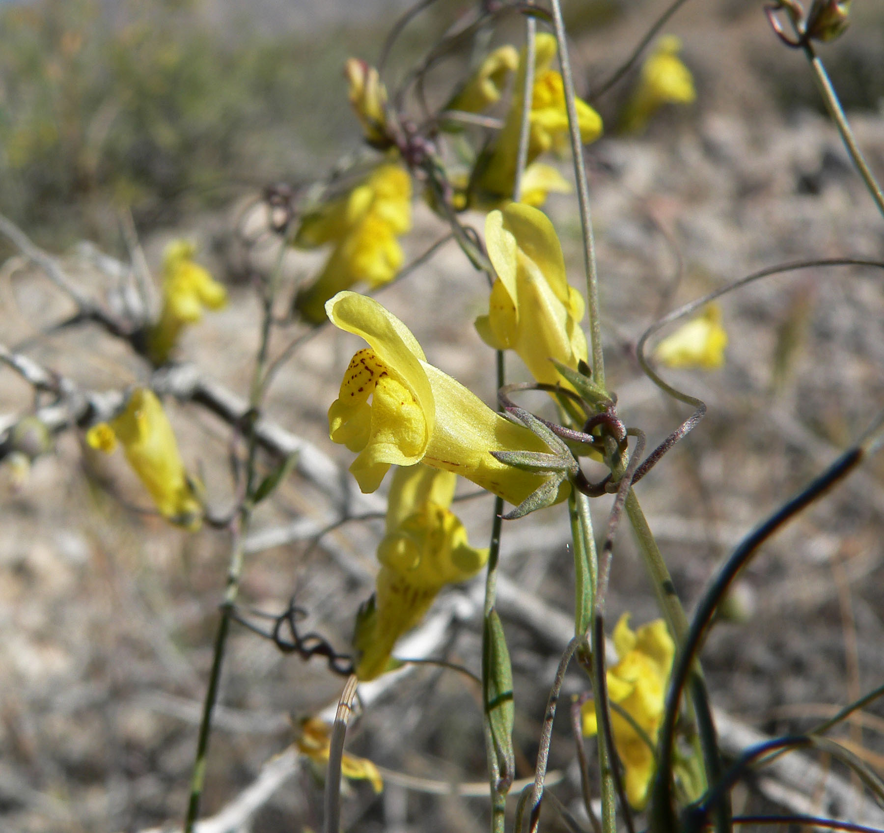 Antirrhinum filipes in Bonanza Wash, between Columbia Pass and Sandy Valley, Spring Mountains, southern Nevada (elev. about 1000 m)